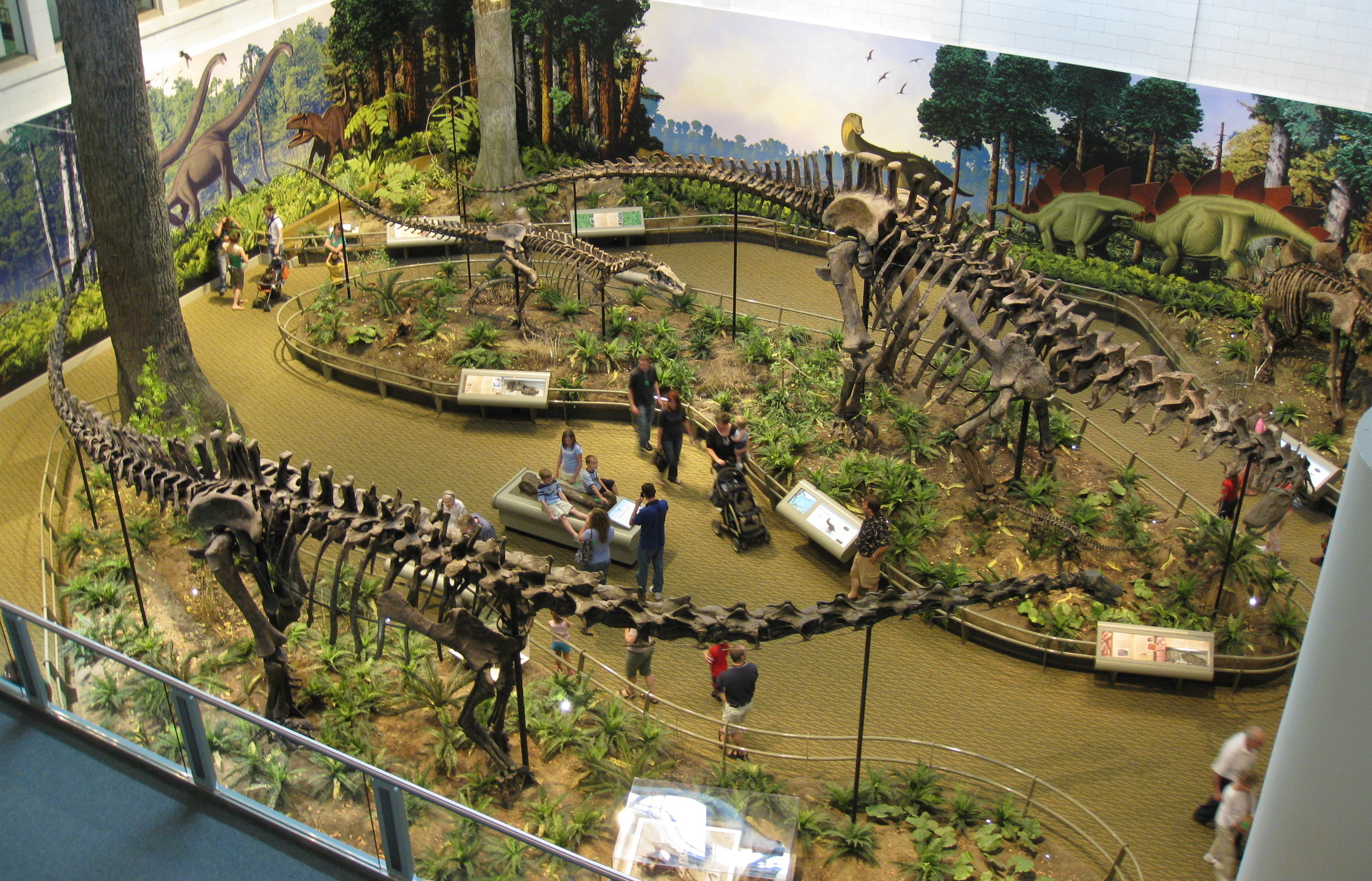 Dinosaurs in Their Time is the largest renovation project at Carnegie Museum of Natural History since the museum was founded in 1895. This new exhibit will allow the Museum to properly display one of the largest, most diverse, and scientifically important collections of dinosaurs and other Mesozoic fossils in the world. Dinosaurs in Their Time is more than three times larger than the former Dinosaur Hall – increasing the Mesozoic exhibit space from 5,000 to 18,600 square feet Diplodocus carnegii sauropod (seen in the picture) lived 150 million years ago, when dinosaurs dominated the land. Carnegie Museum paleontologists first discovered its remains in Wyoming on July 4, 1899. A new species, the dinosaur was named after Andrew Carnegie, the museum's generous benefactor.